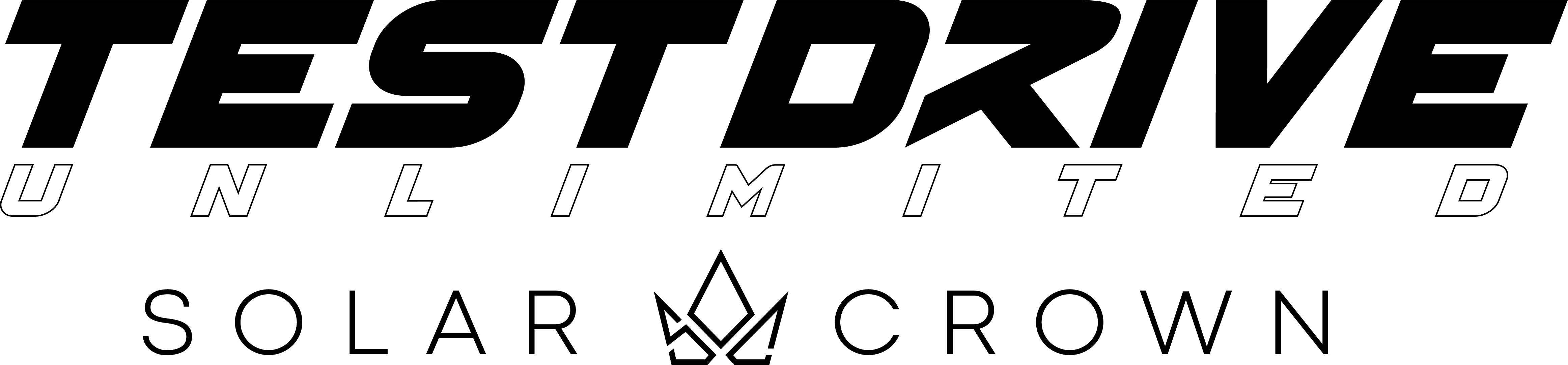 The official logo of the racing video game Test Drive Unlimited Solar Crown.